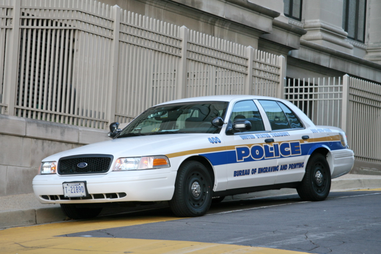 A Ford Crown Victoria police car used by the US Bureau of Engraving and Printing Police Summary Part of the Department of the Treasury, the Bureau of Engraving and Printing (BEP) Police, Bureau of Engraving and Printing (BEP) Police is responsible for enforcing federal and municipal laws and Treasury Department/BEP Security rules and regulations.